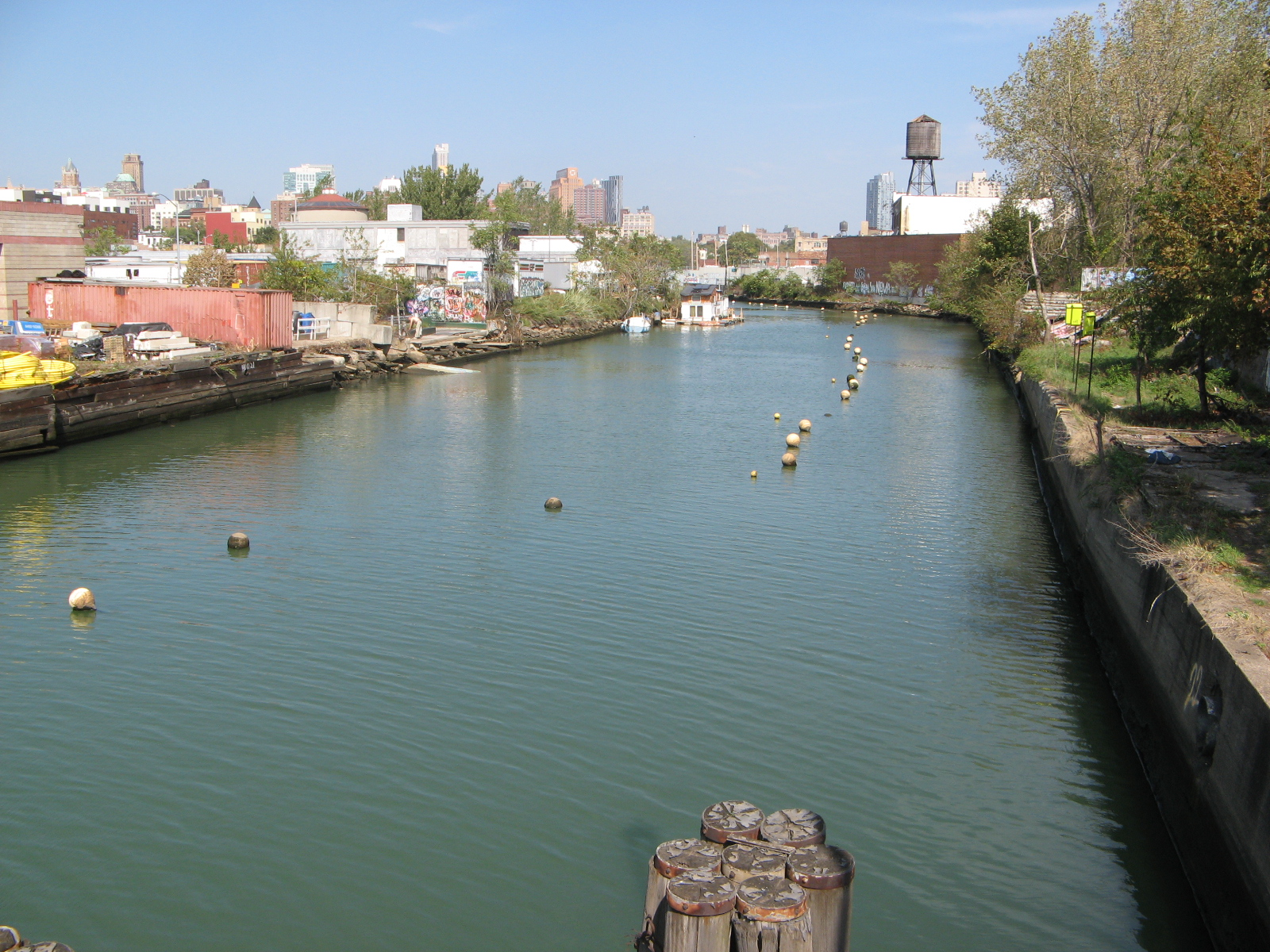 The Gowanus Canal - Brooklyn's very own Superfund site!